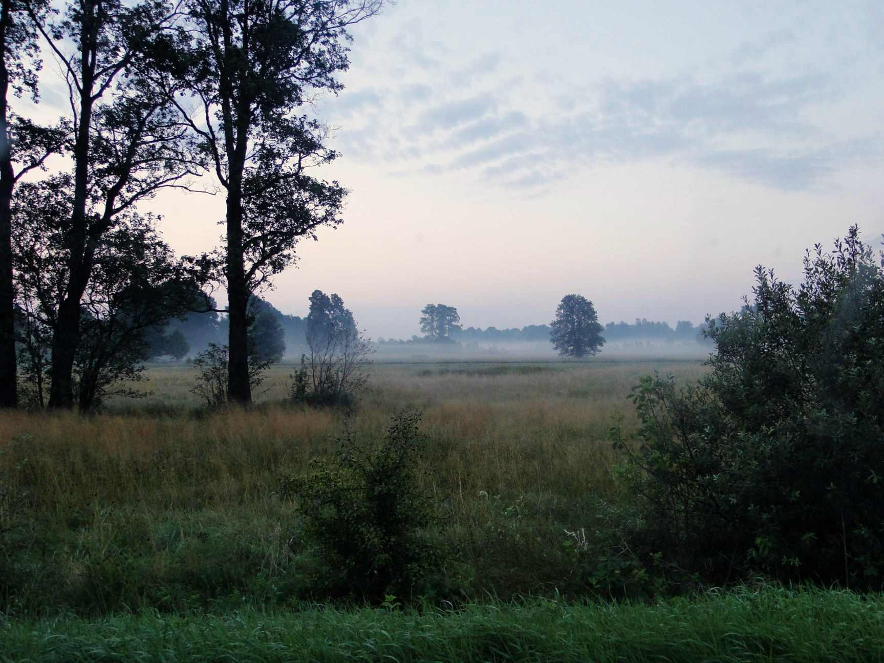 Fog before sunrise in Zieliniec, Poland